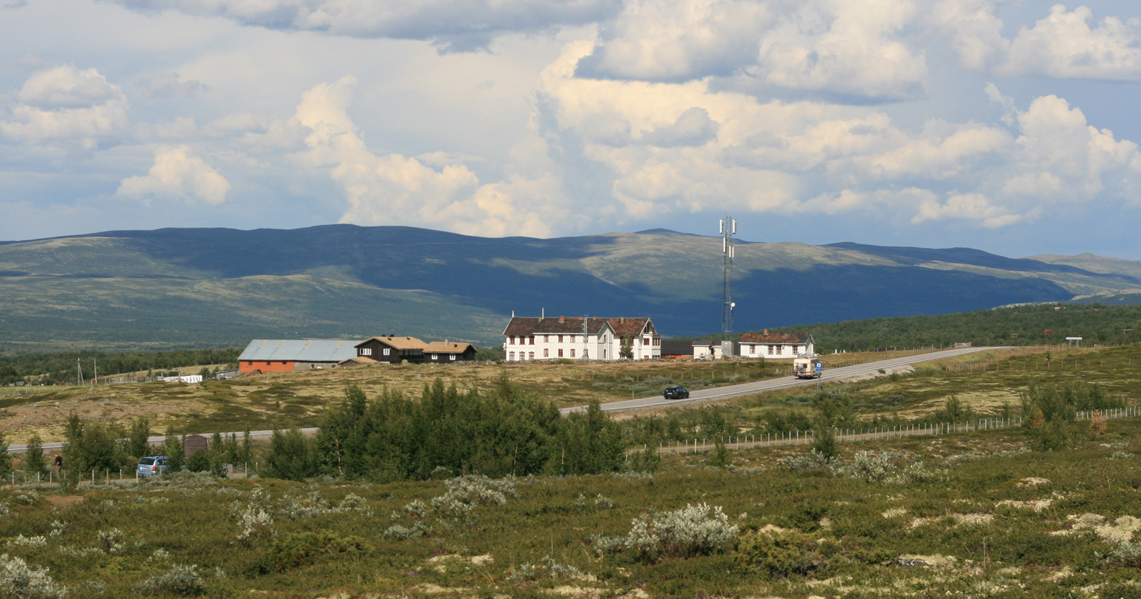 Fokstugu mountain lodge, Dovre, Norway. Its history as a mountain lodge dates back to the 17th Century; houses rebuilt after a fire in 1718.